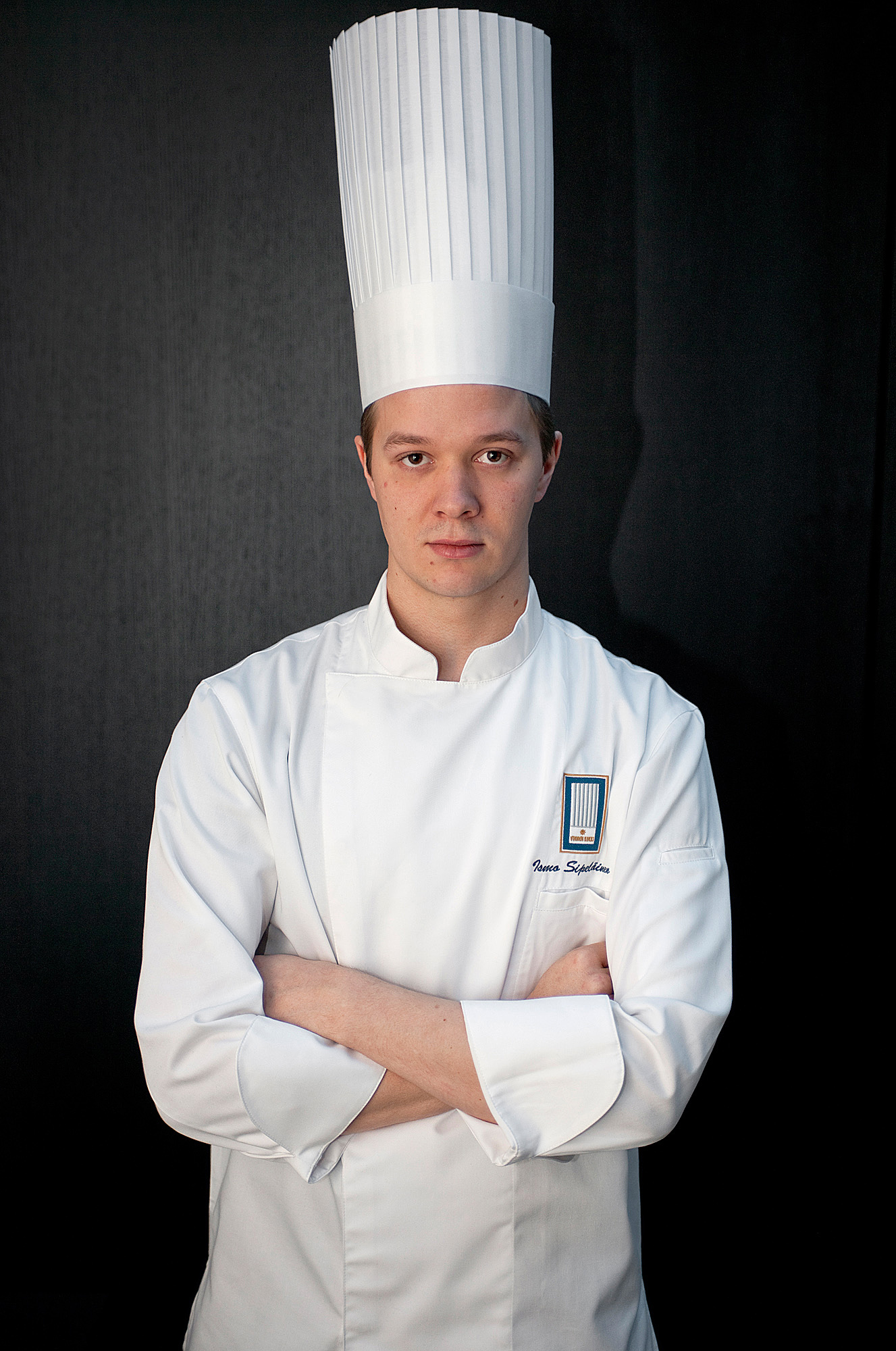 Chef Ismo Sipeläinen from Finland, participant of Vuoden kokki 2014 competition (Chef of the Year 2014, Finland). Mr. Sipeläinen was winner of Vuoden kokki 2015 competition (Chef of the Year 2015, Finland).